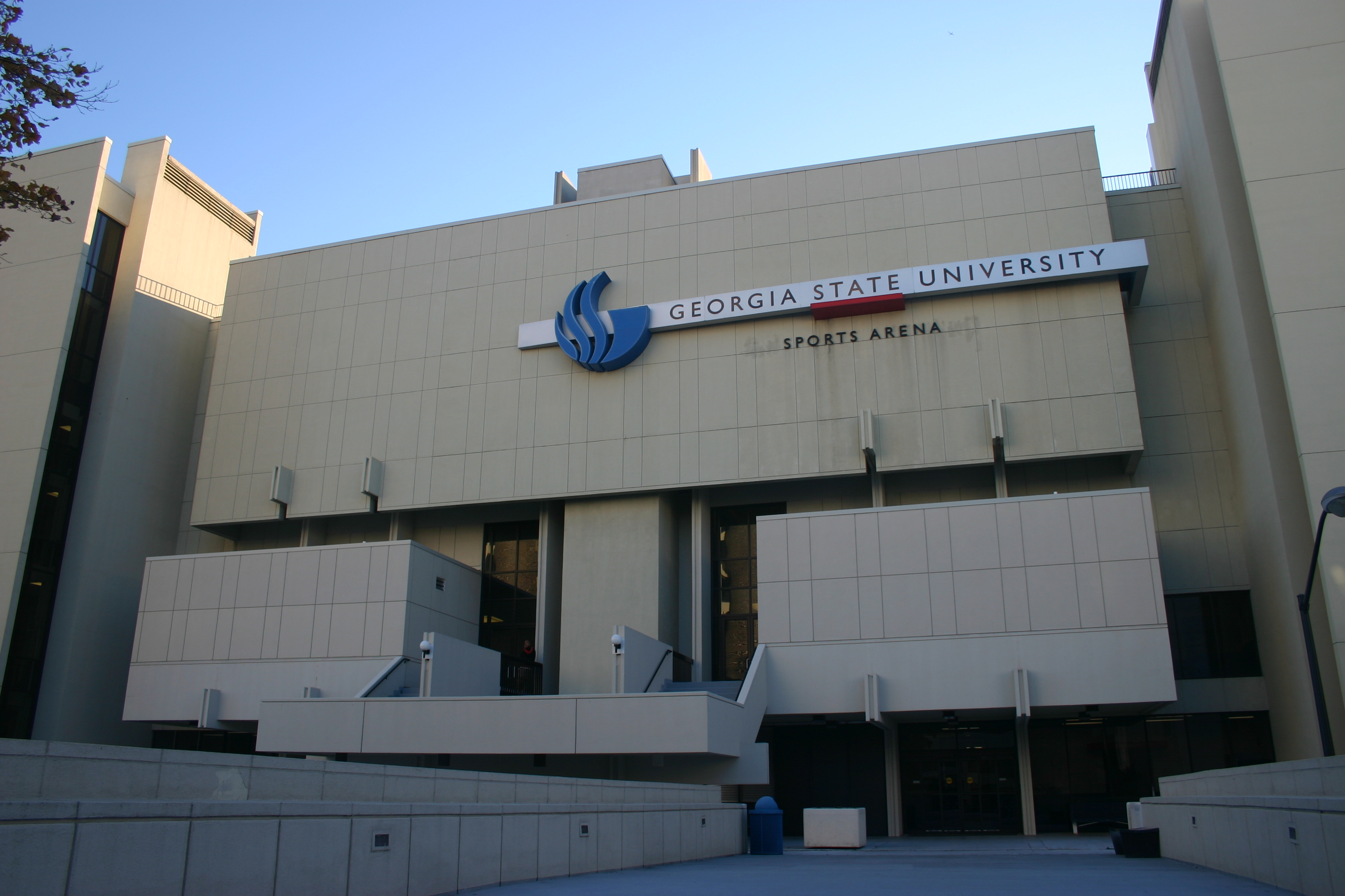 The exterior of the GSU Sports Arena in Atlanta, Georgia, part of Georgia State University. Taken from the upper bridge from the Urban Life Center. Taken with Canon DS6041